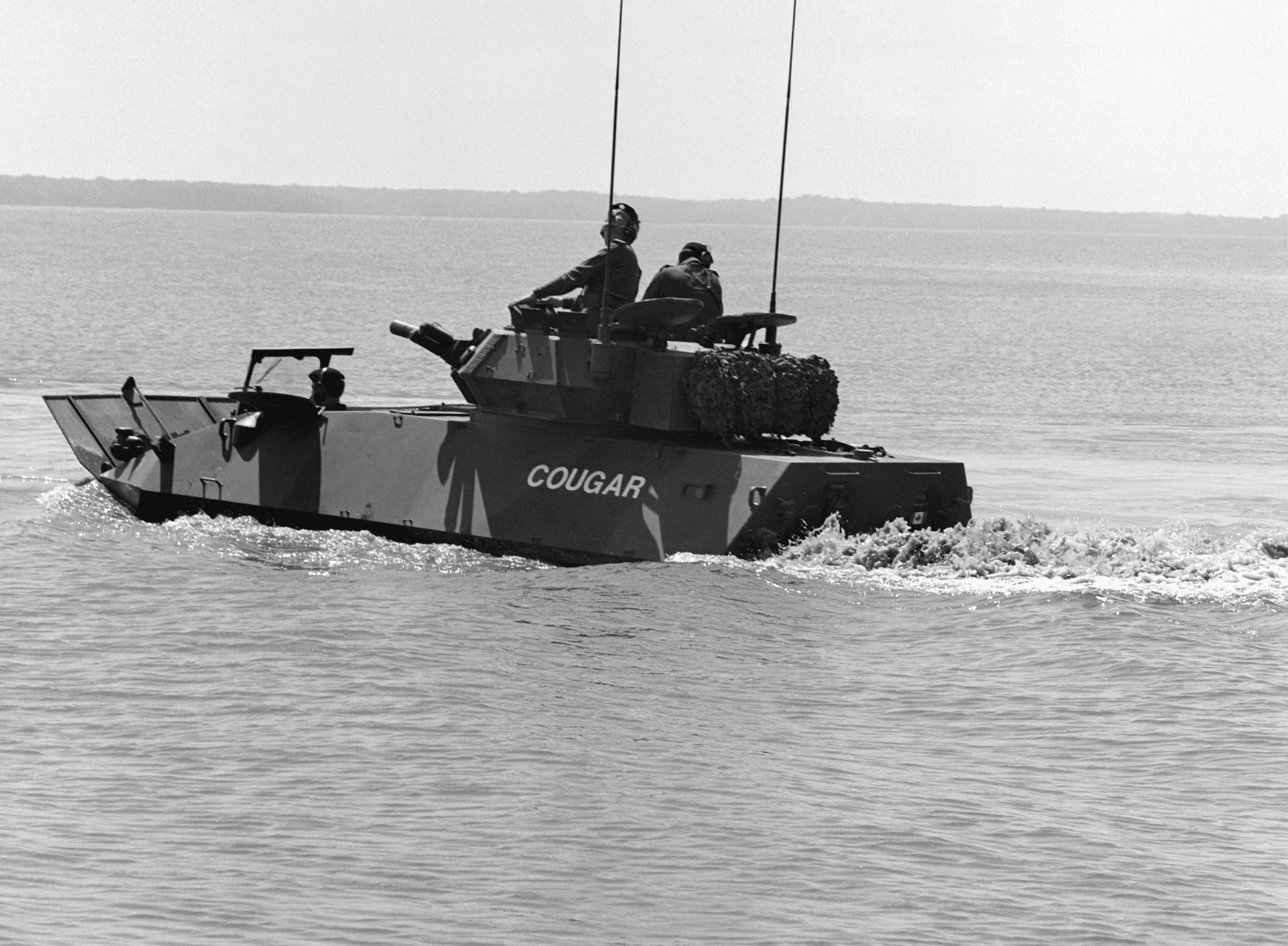 A Canadian armored vehicle general purpose (AVGP) Cougar demonstrates its amphibious abilities in the Potomac River. The Cougar is one of two AVGP being demonstrated before an audience of more than 100 Marines and civilians. Location: MARINE CORPS DEV&EC, QUANTICO, VIRGINIA (VA) UNITED STATES OF AMERICA (USA)